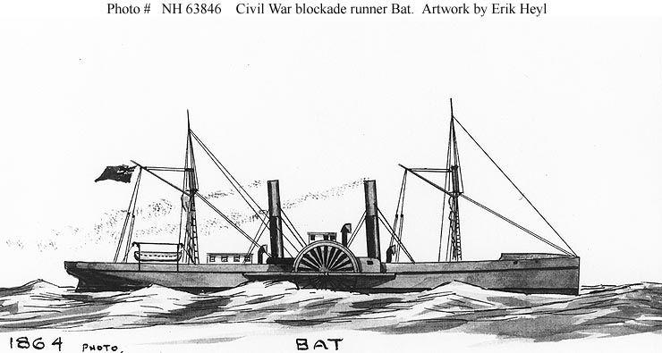 USS Bat (1864)